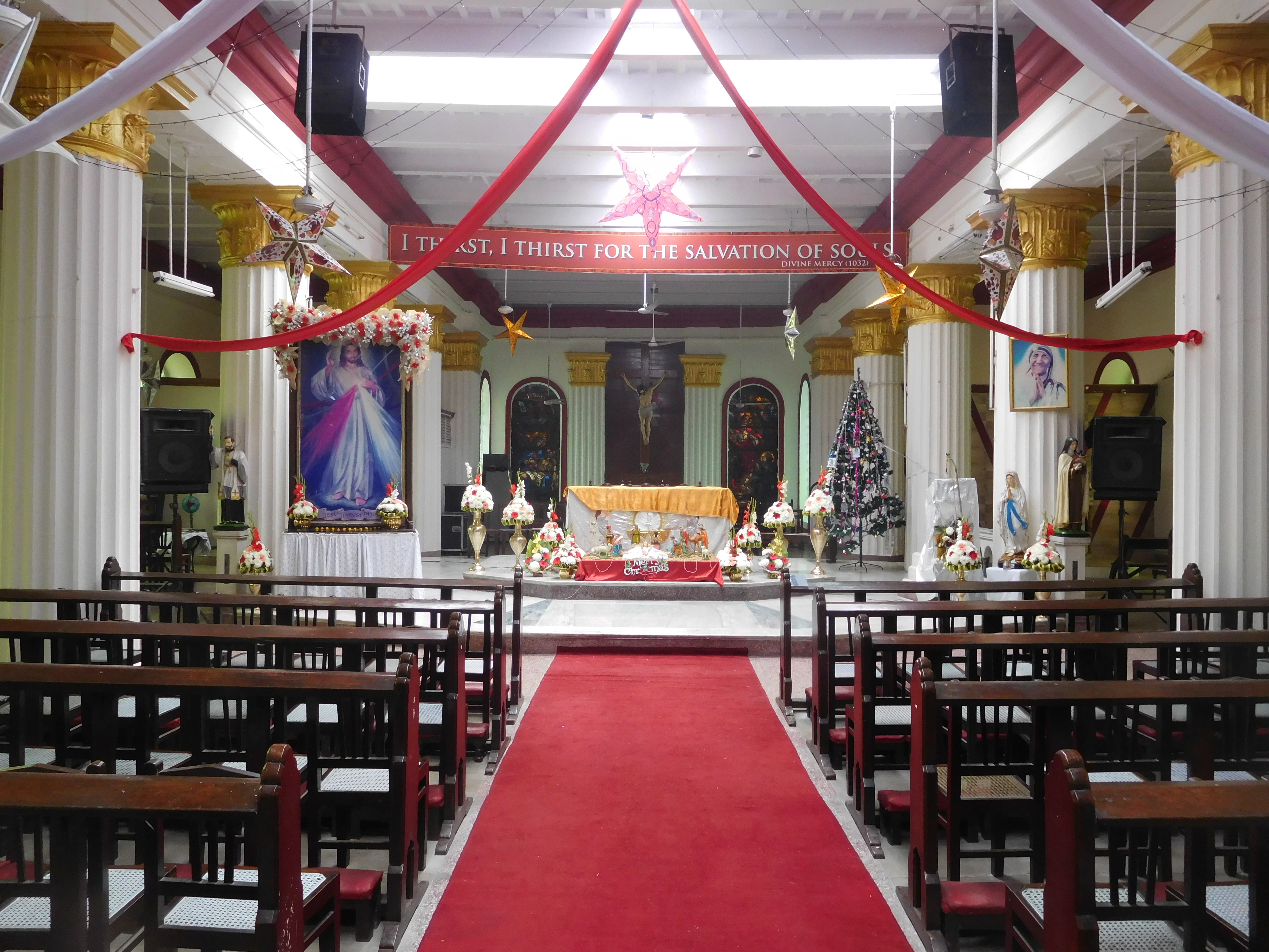 The nave of the Sacred-Heart Catholic Church of Dharamtola, Calcutta